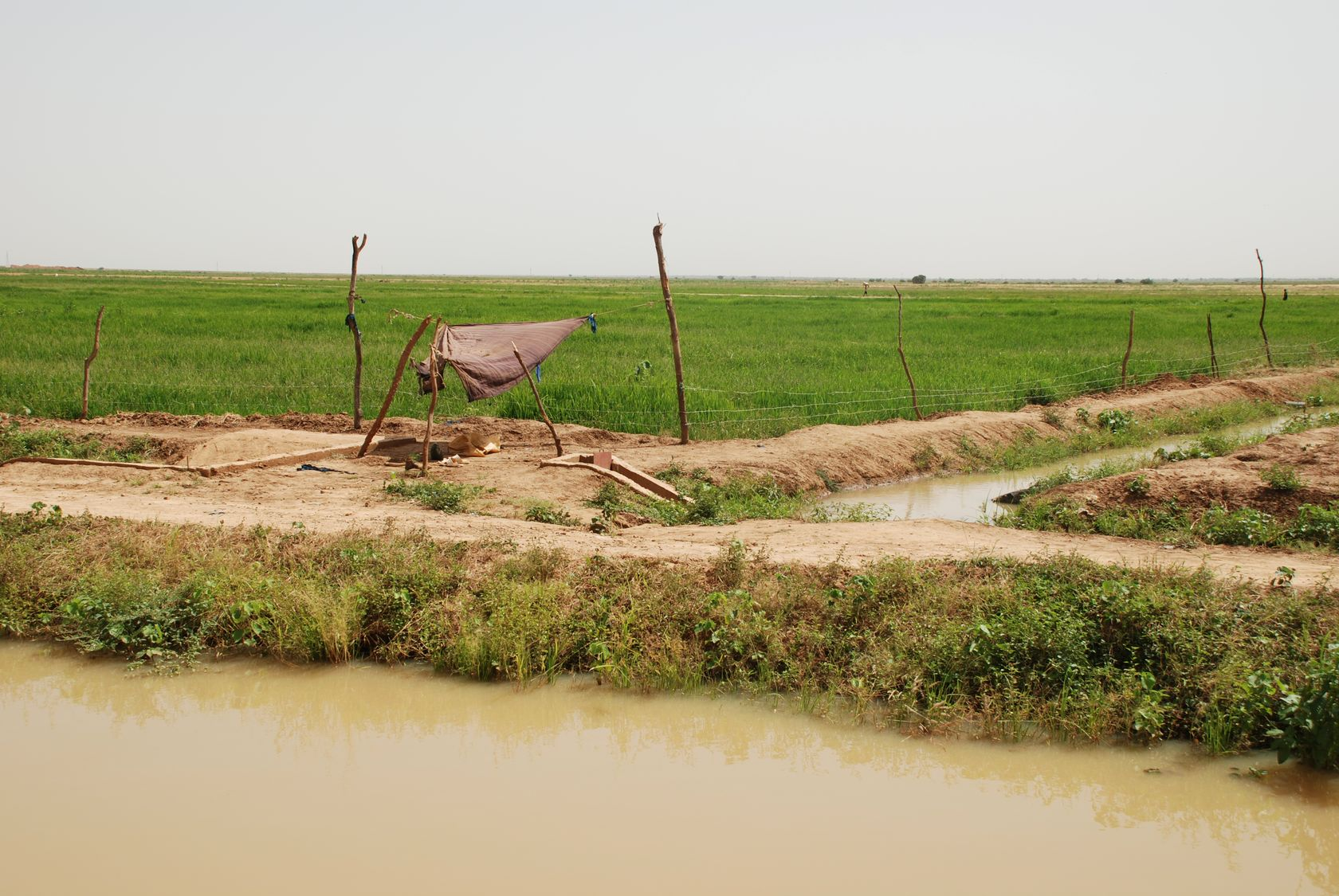 Kaédi, Mauritania, rice field